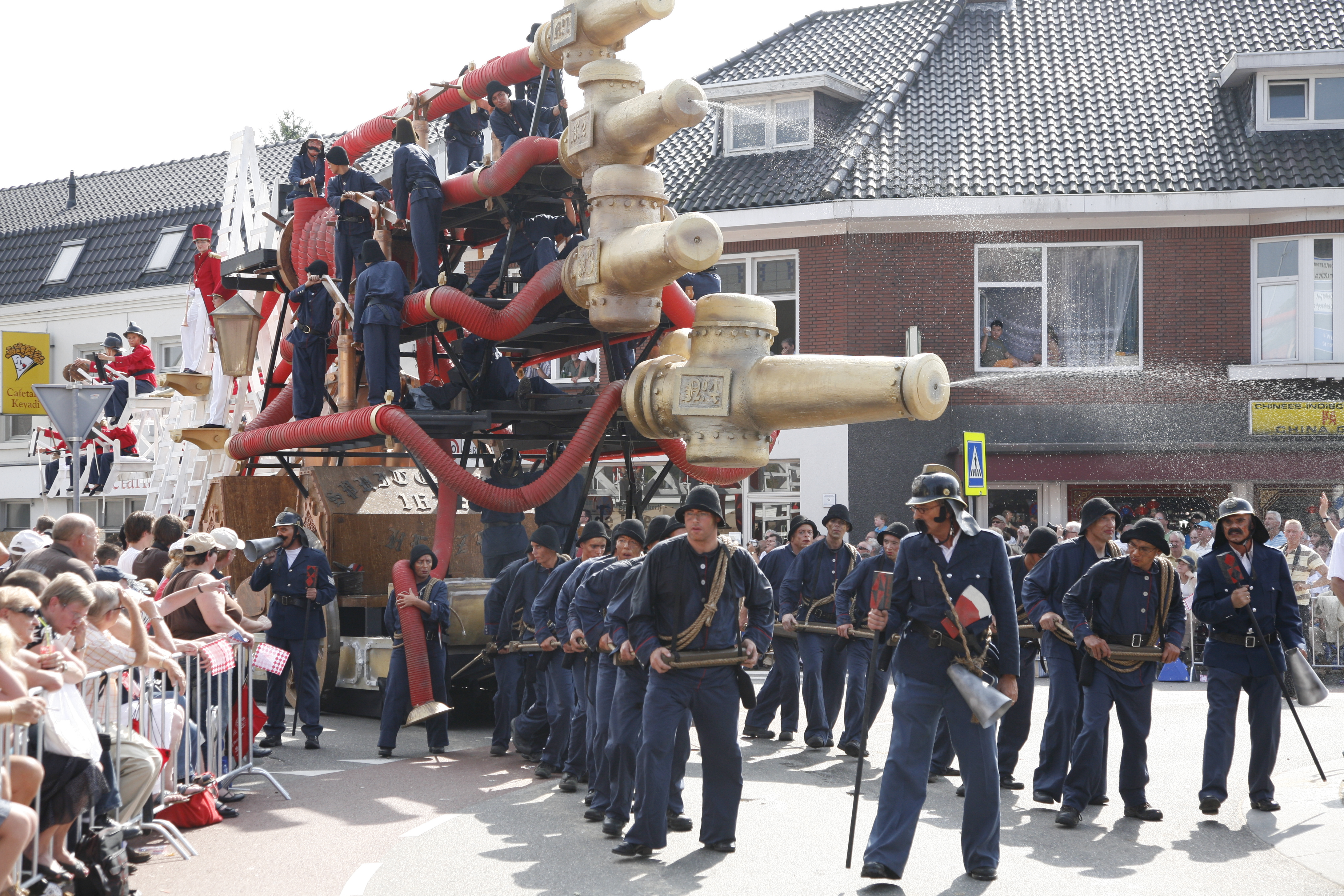 Brabantsedag 2008 - De Laarstukken